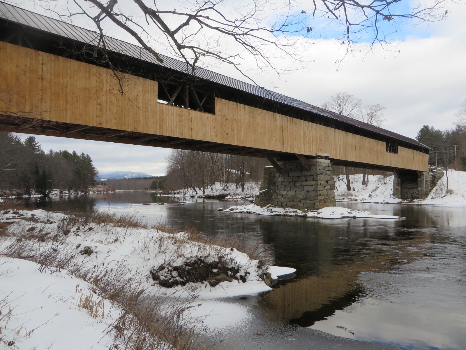 Blair Bridge over the Pemigewasset River